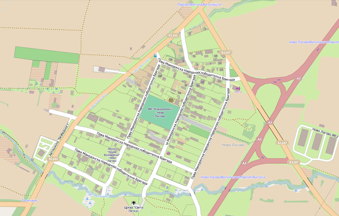 Novo Lagovo at OSM Map